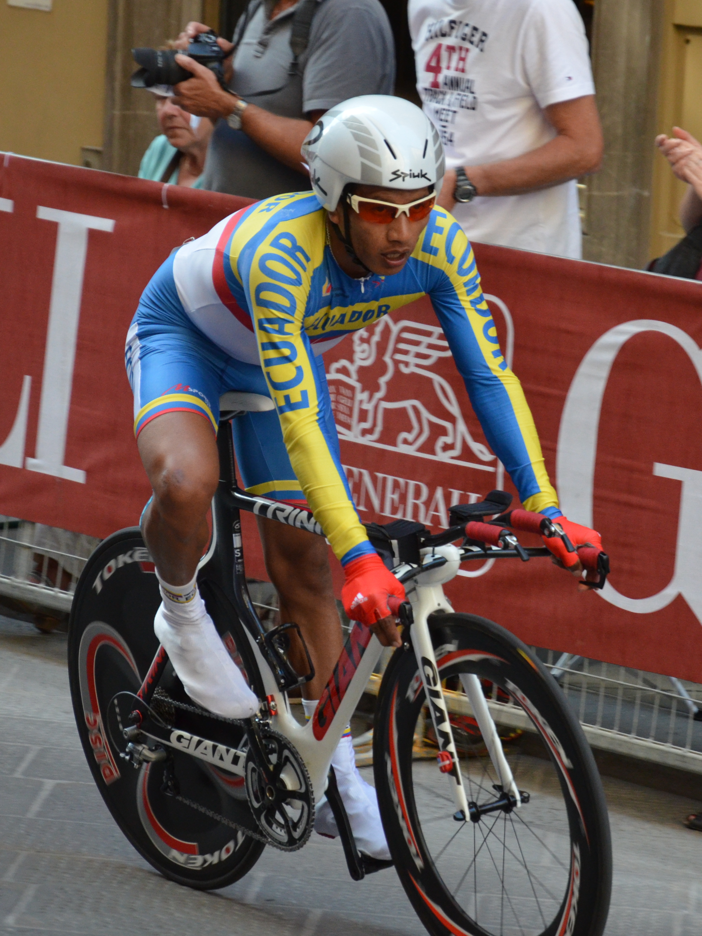 Navarrete Segundo Uci Road World Championships Toscana Italy 2013 Florence